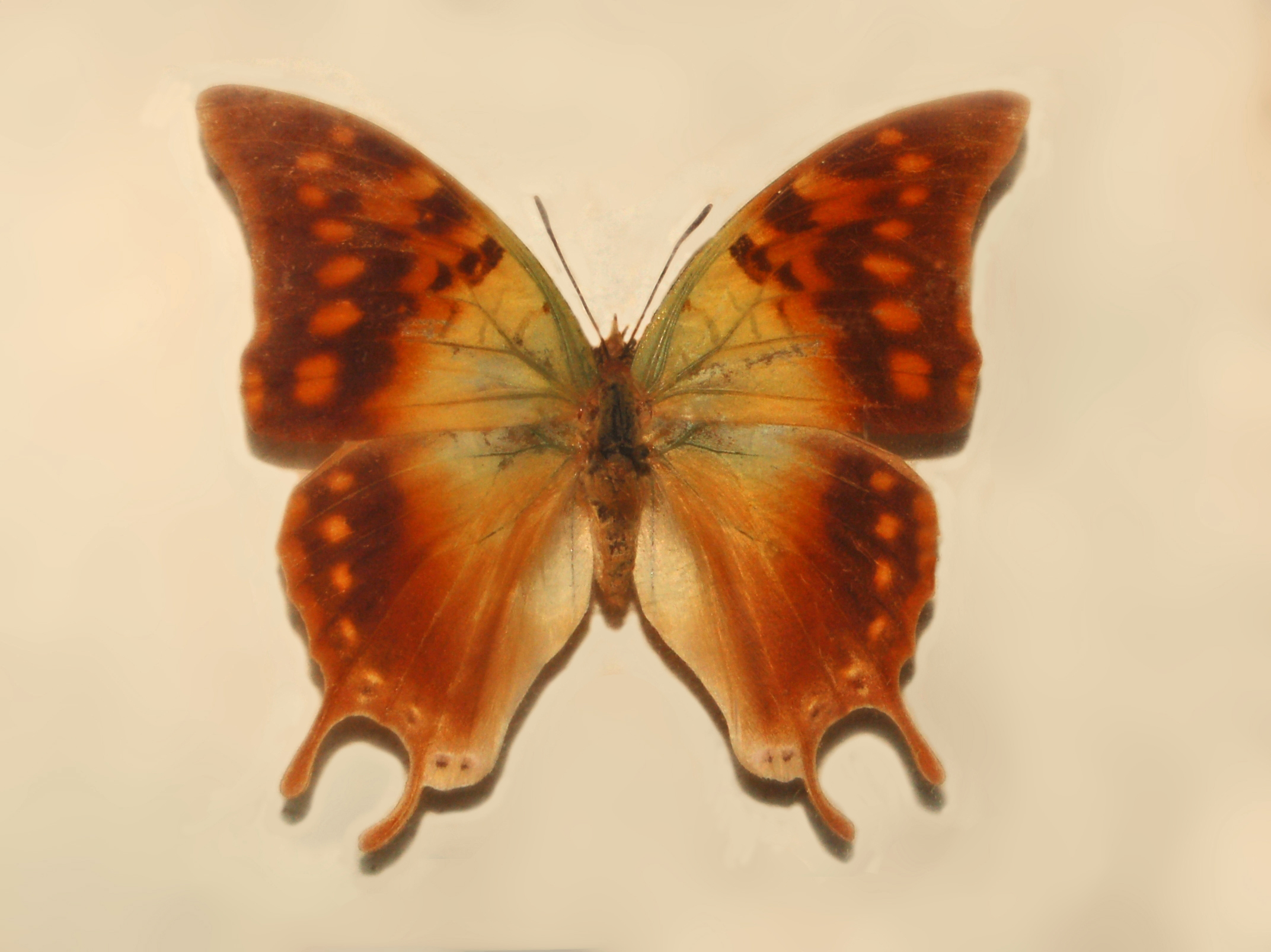 Charaxes candiope from Ethiopia. Mounted specimen